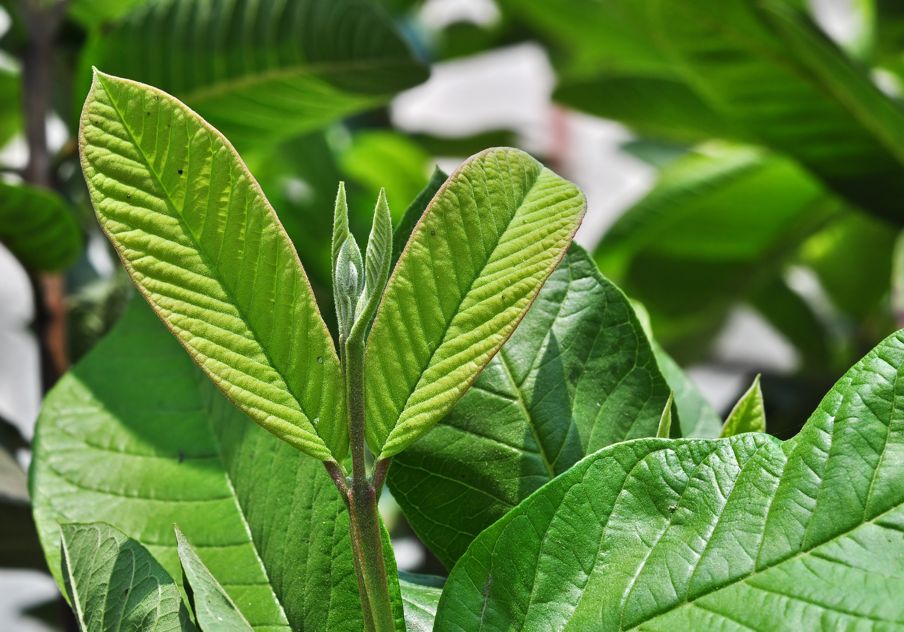 Leafbud of common guava (Psidium guajava). Taken at Burdwan, West Bengal, India.